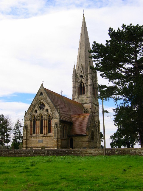 St. Leonards, Scorborough, East Riding of Yorkshire, England.The small village of Scorborough is east of the A165 and north of Leconfield amidst farmland.